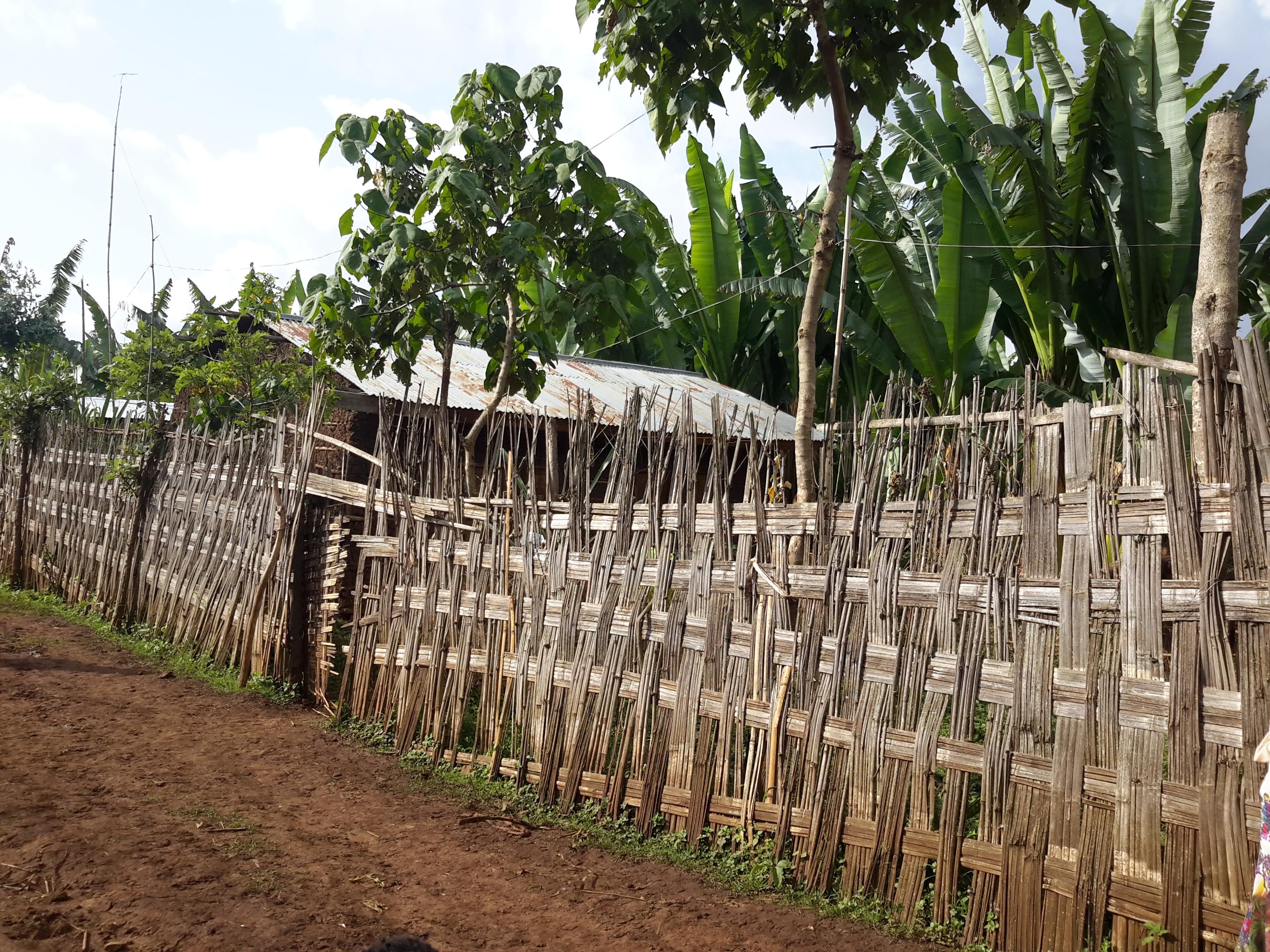 Bamboo fence surrounding a compund in zada. SNNPRS, Gamo Gofa, Zada Town, Ethiopia. This is an image of "African people at work" from Ethiopia